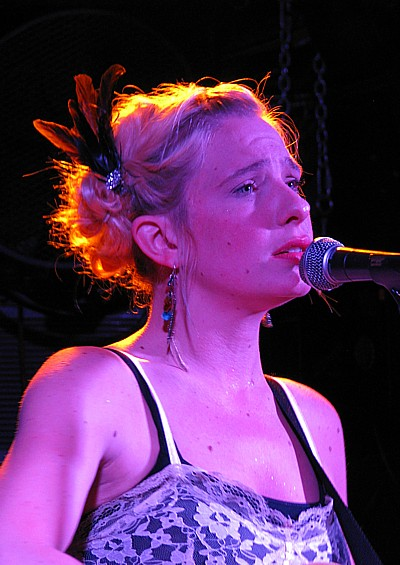 Close up of Sharon Little at The Saint in Asbury Park, NJ, June 2011.